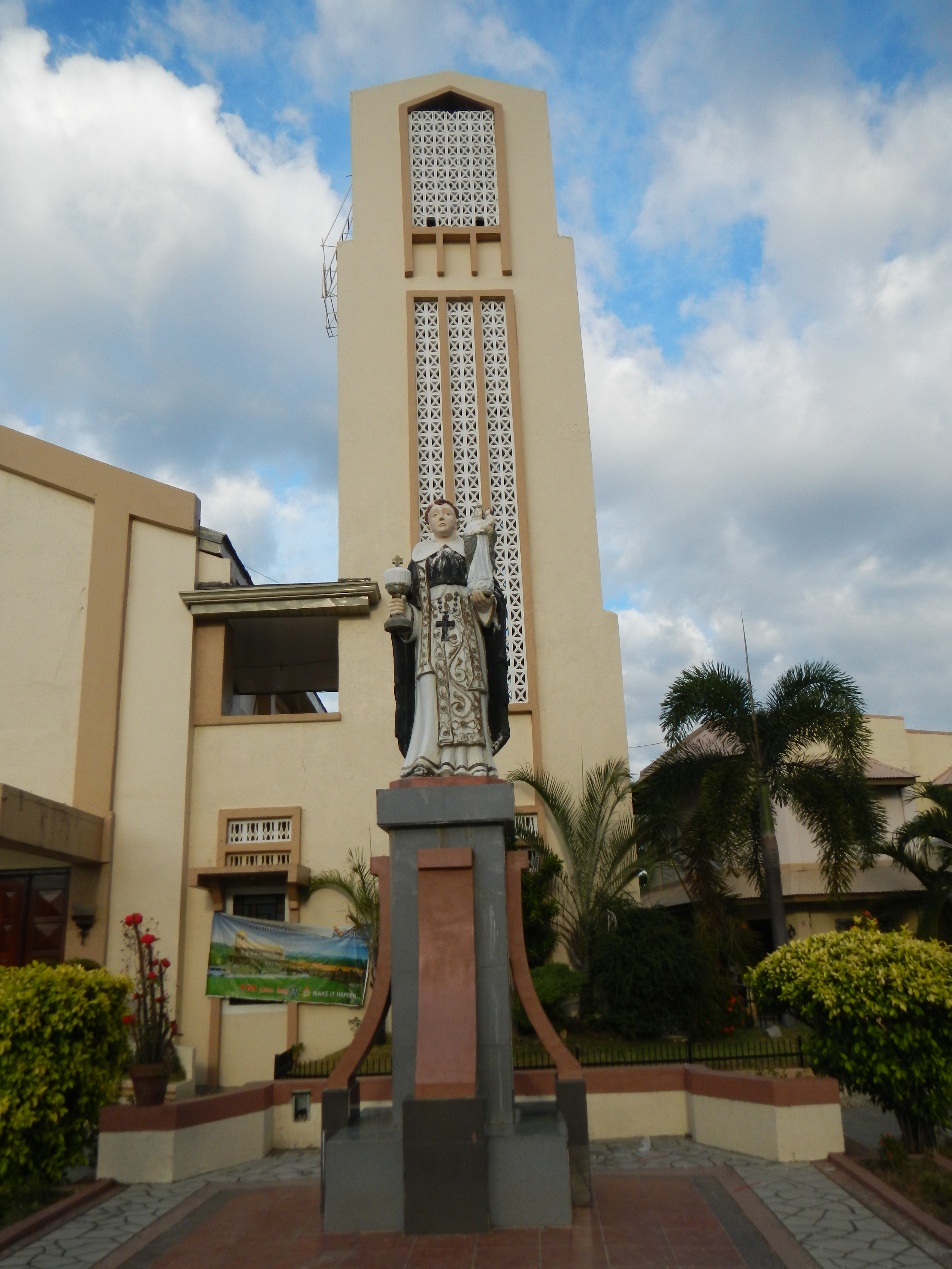 Parish of St. Hyacinth (F-1590), San Jacinto, 2431 Pangasinan, Tel. 5290-722, Population: 25,722; Catholics: 23,628, Titular: St. Hyacinth, Aug. 17 Parish Priest: Rev. Jose Laforteza [1] San Jacinto, Pangasinan[2]